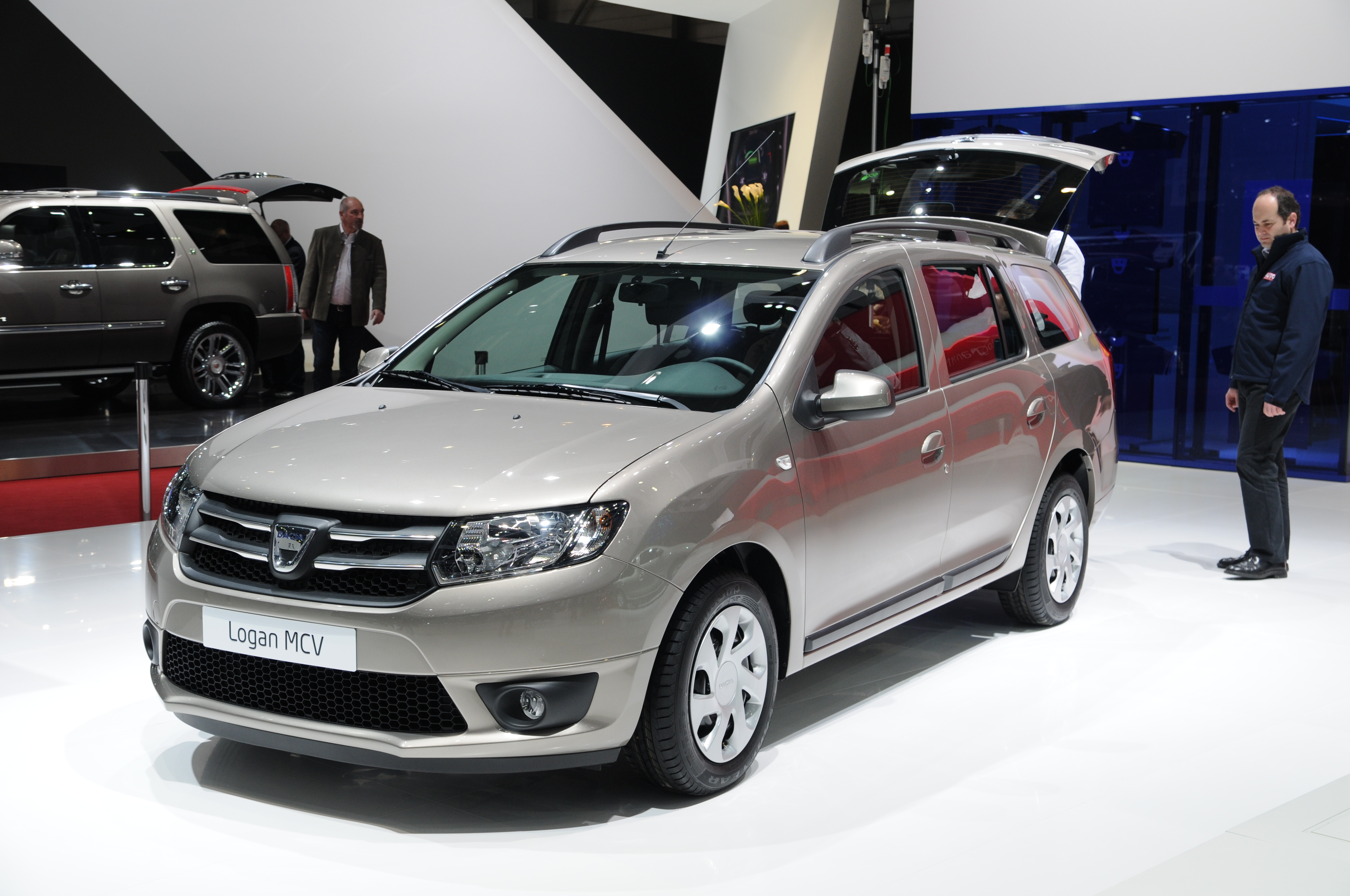 Geneva Motor Show 2013 (photos taken on the first press day)